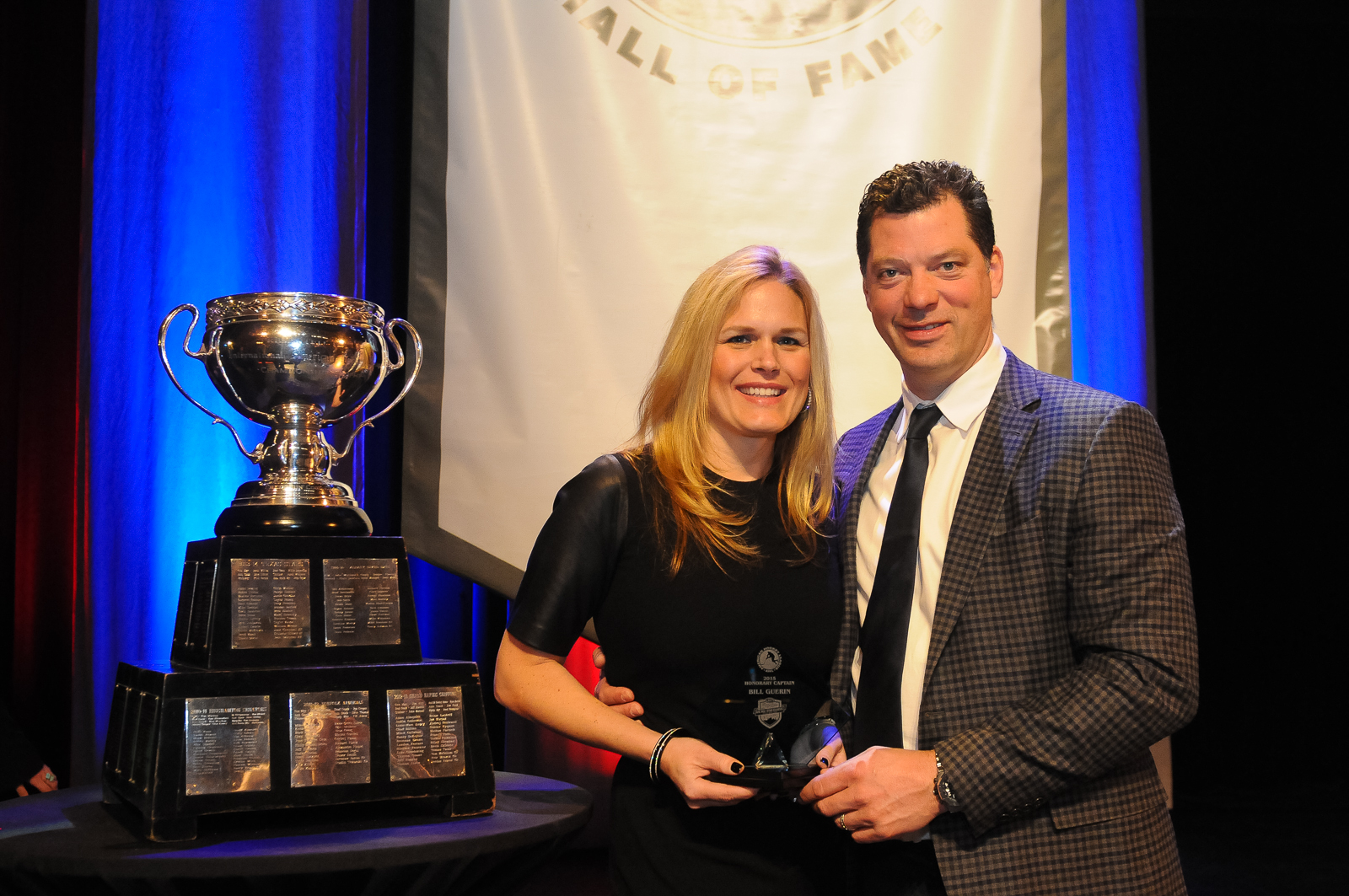 Lindsay A. Mogle/AHL